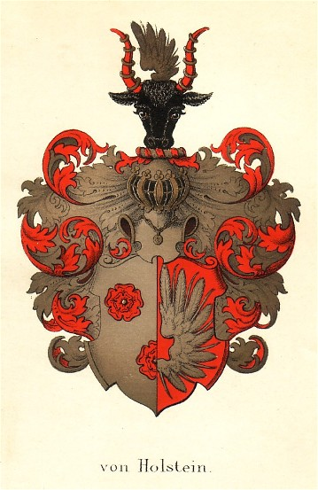 Coat of arms of the Holstein family